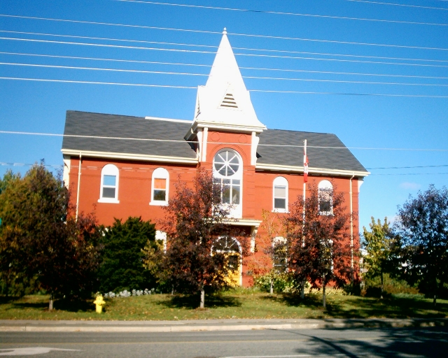 I, (Derek Silver), took this photograph on 1 October 2006. It is of Magnus Theatre in Thunder Bay, Ontario. I hereby release it into public domain for the masses to enjoy. :) Vidioman 16:54, 4 June 2007 (UTC)